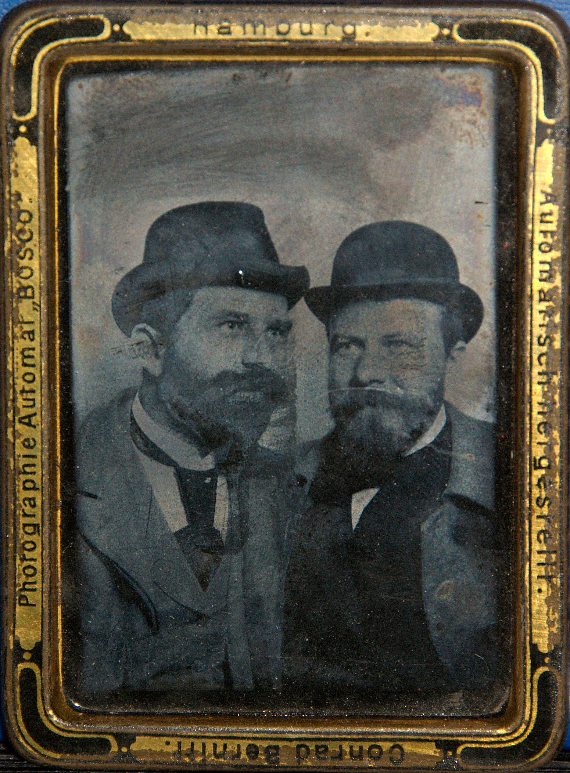 Eine Ferrotypie aus einem Bosco-Automaten. Example of a ferrotype produced by a "Bosco" machine.